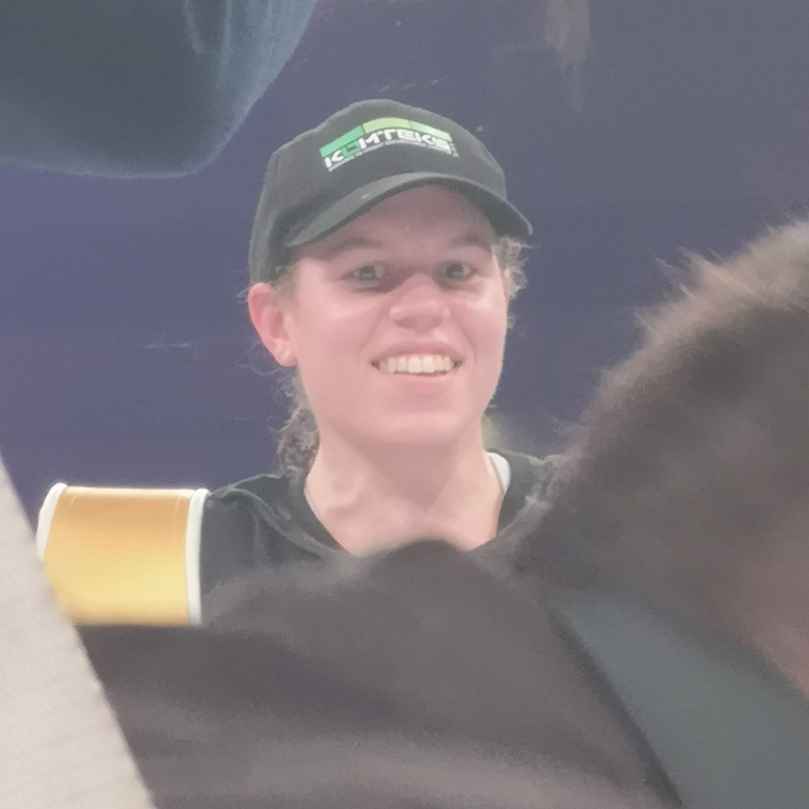 Ema Kozin, by achieving her victory against Maria Lindberg from Sweden, succesfully defended the Women's World Champion title of the Super Middleweight class as per the WBF, WIBF, WIBA, GBU and IBA.